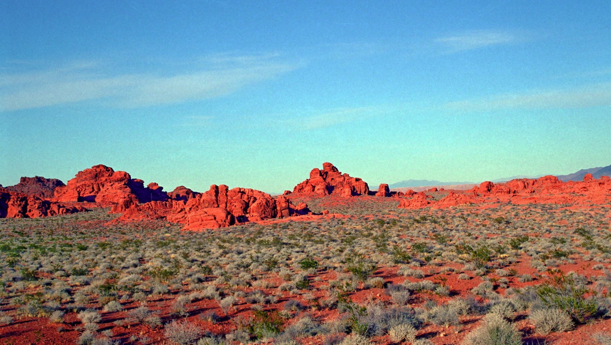 Valley of Fire, Nevada, USA